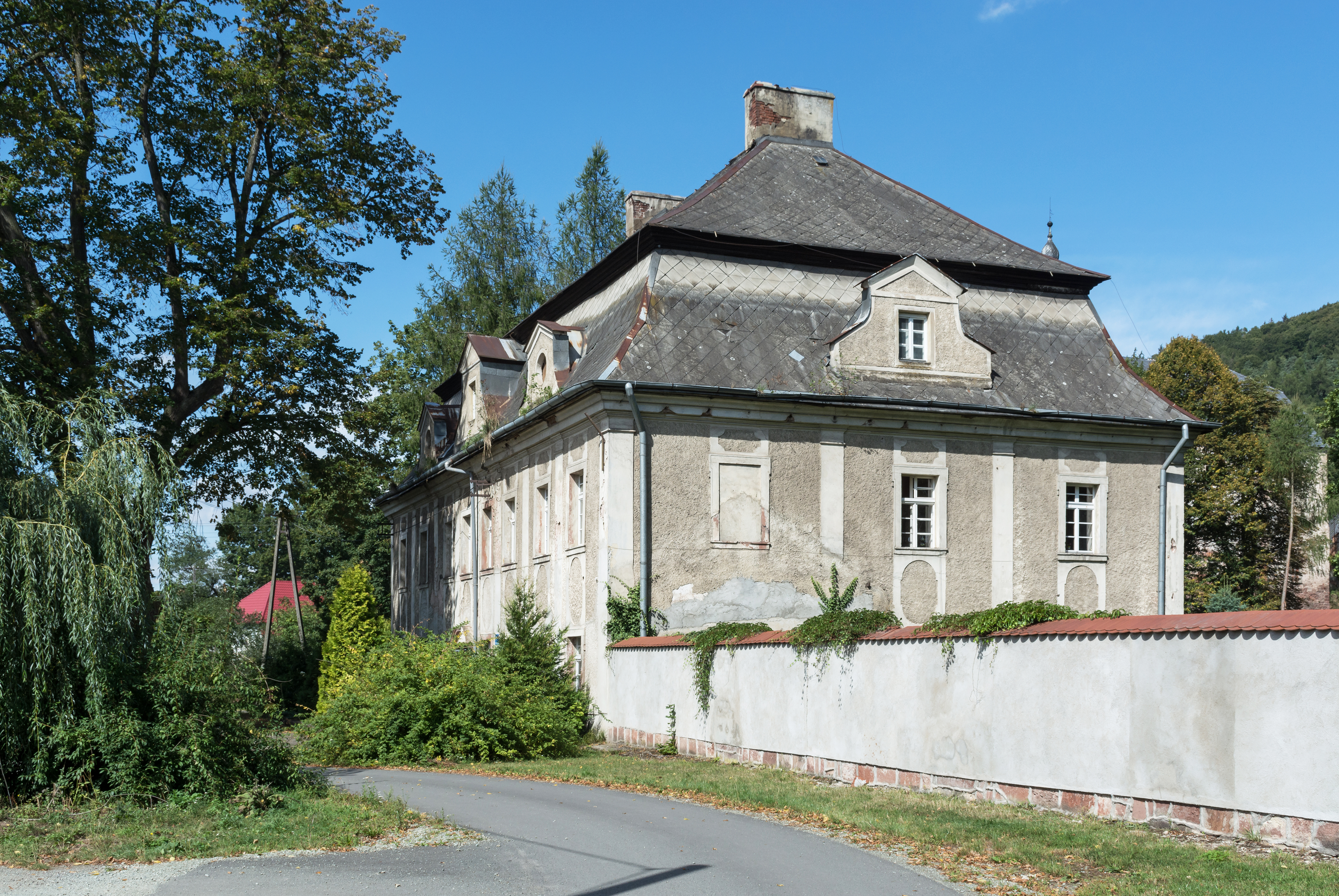 Sarny summer palace